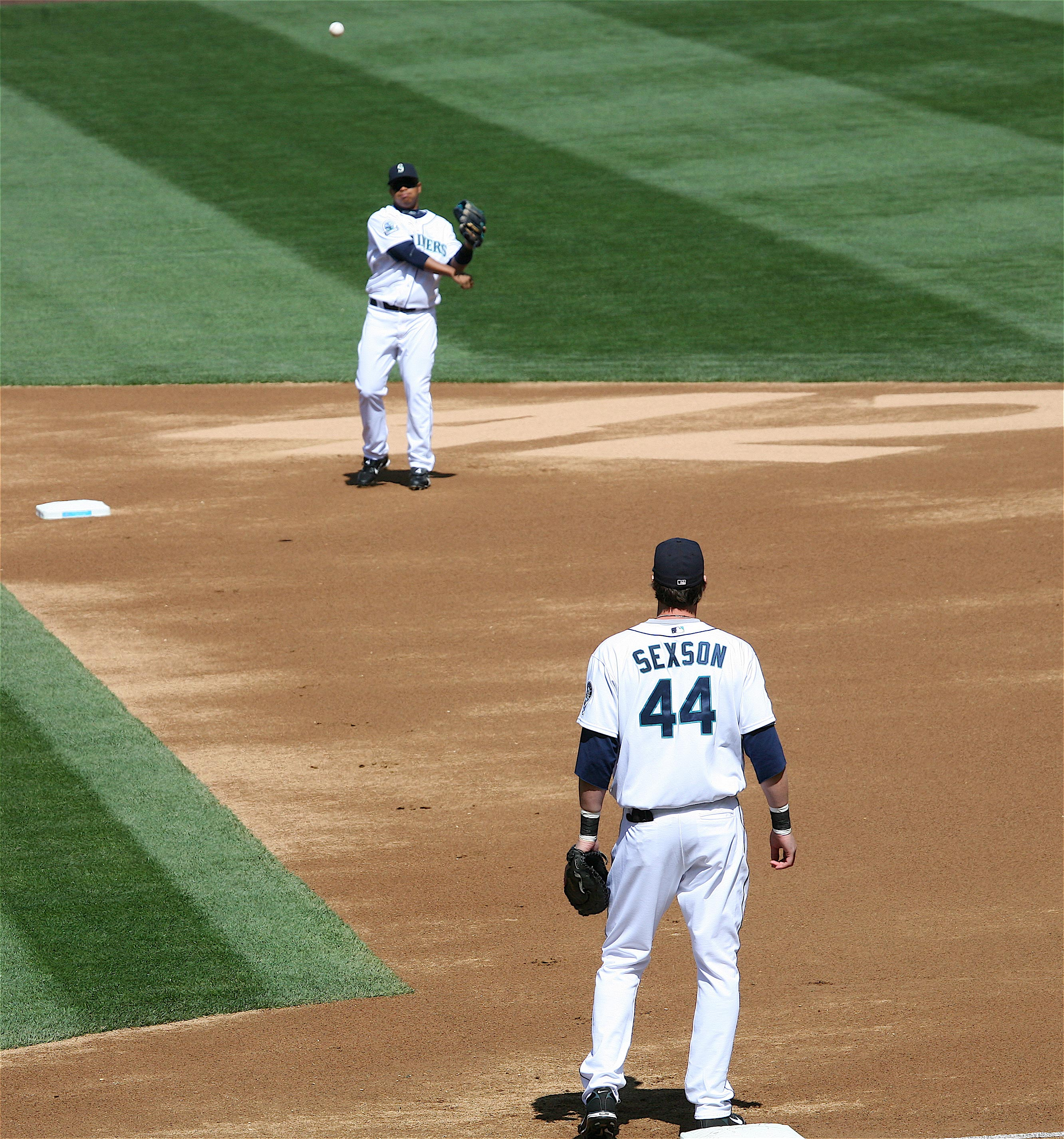 José López throwing to Richie Sexon.